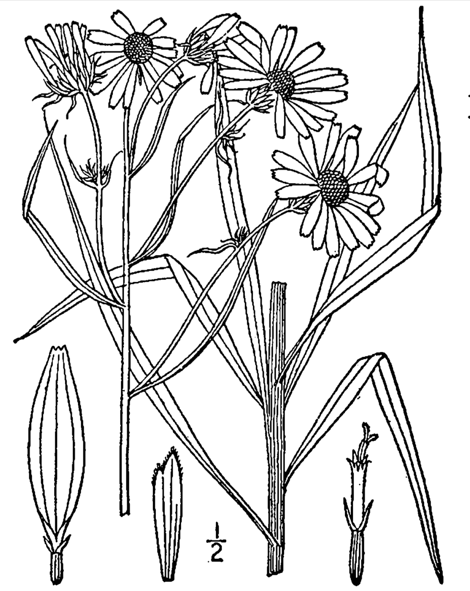 Helianthus salicifolius